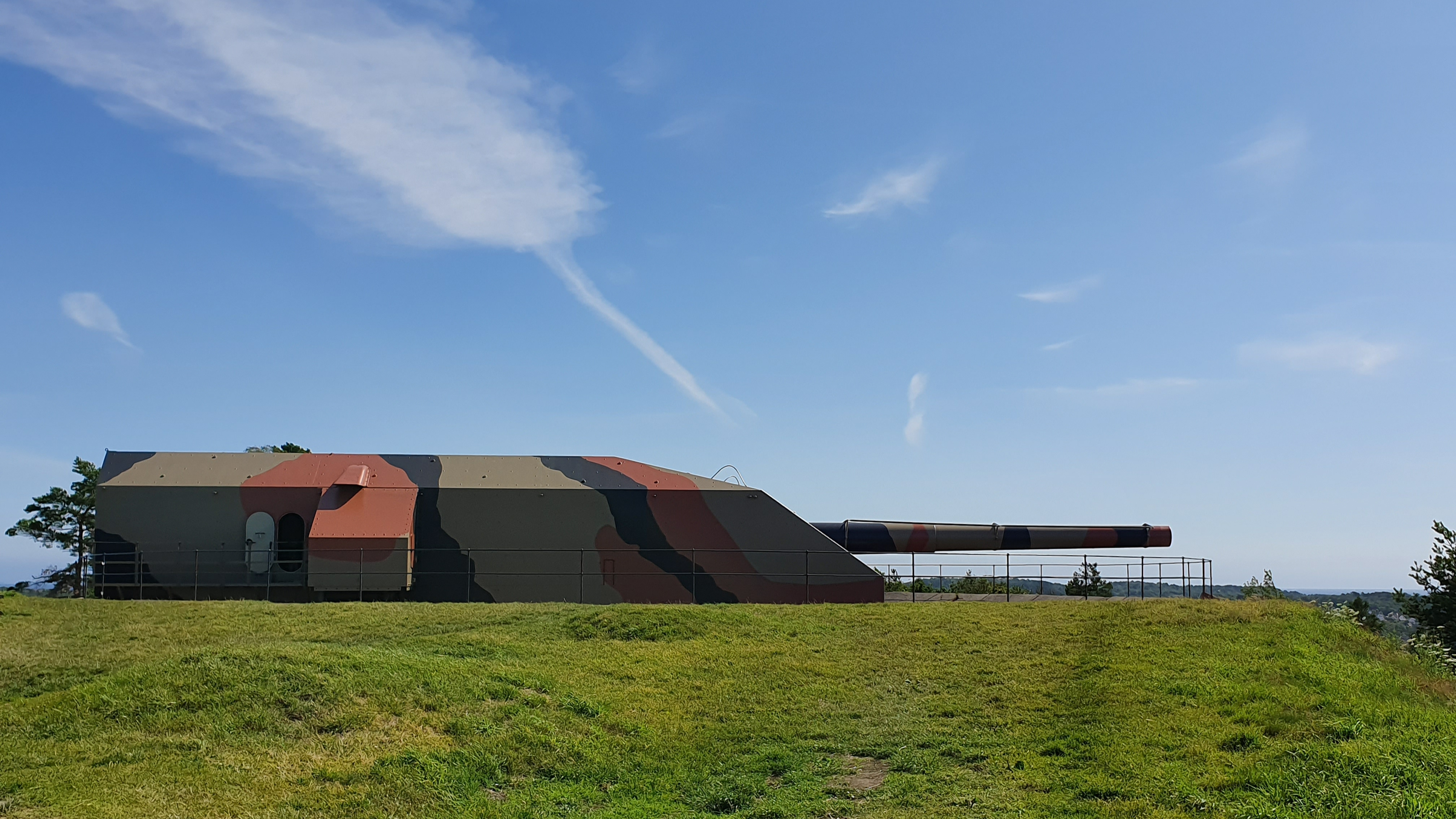 Kristiansand kanonmuseum - whole cannon view from the right side